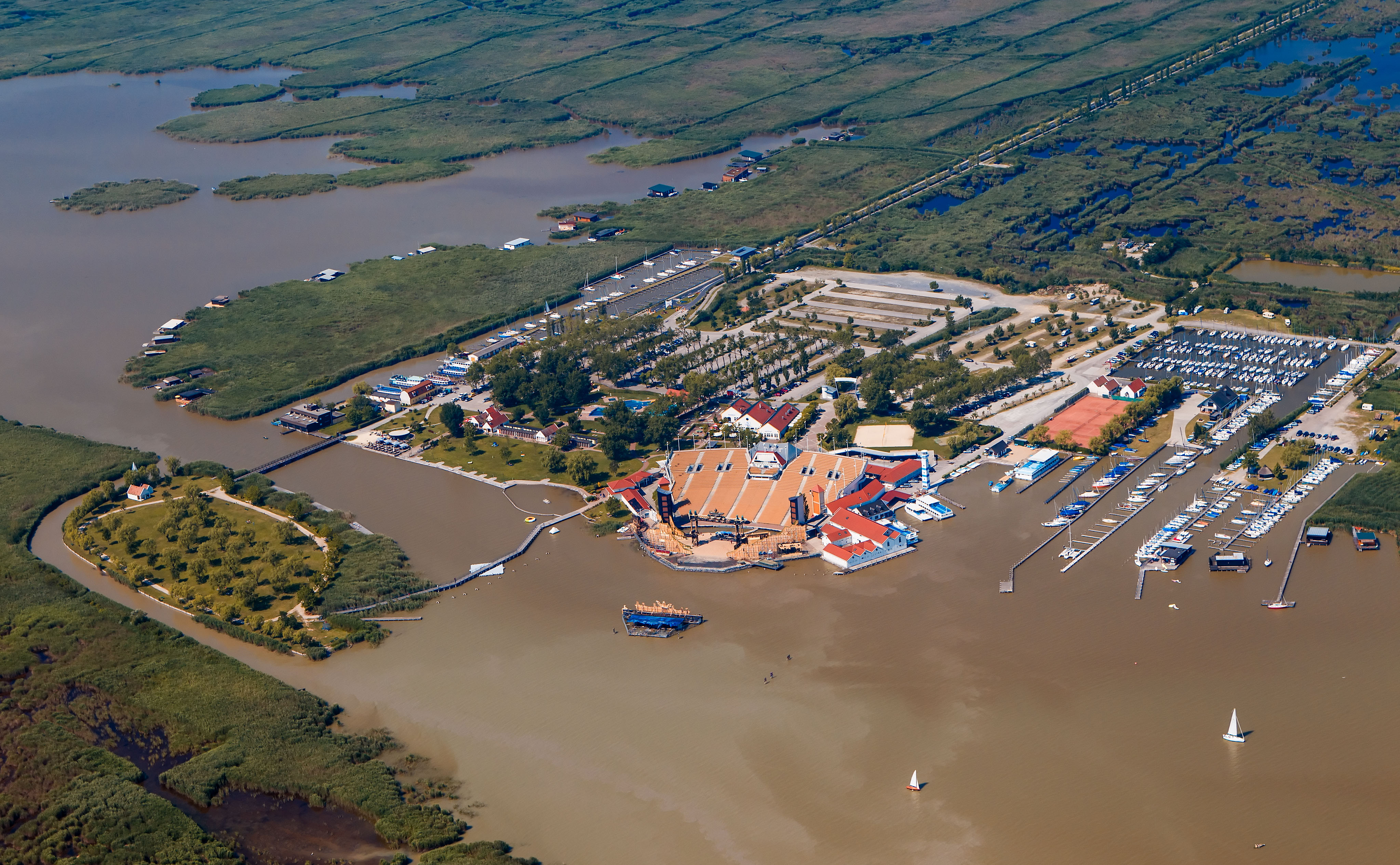 with a Diamond Aircraft over the Seebühne Mörbisch on the Neusiedler Lake